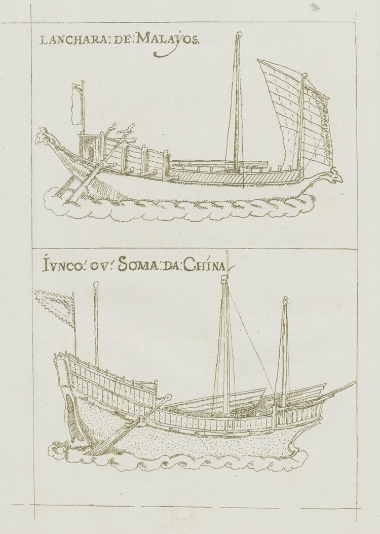 A seventeenth century Portuguese depiction of a Chinese junk (also referred to as "soma") and a type of light Malayan vessel, dubbed lanchara. Retrieved from the work by Manuel Godinho de Éredia, Description of Malacca, Meridional India and Cathay (Declaraçam de Malaca e Índia Meridional com o Cathay)Extra note:Although the picture says the junk is from China, the book explained that they are used by the Malays. The double quarter rudder is a feature of Malay ship design.